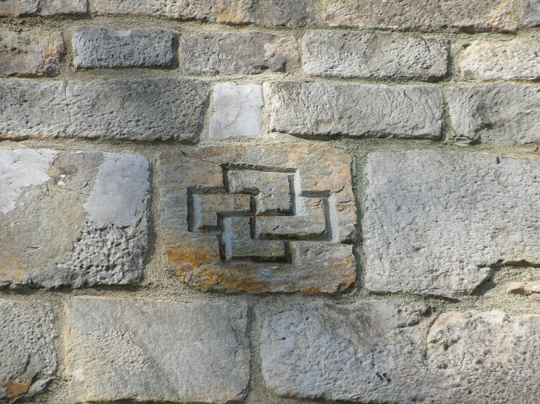 Double swastika from the wall of the XII c. church in Kruszwica.